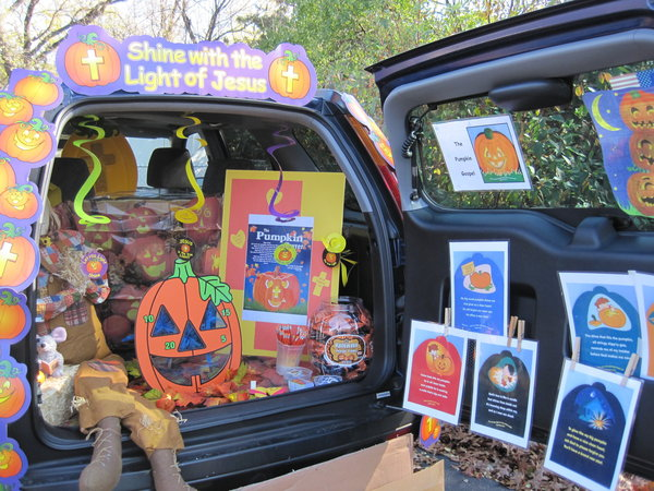 This is a photograph of a Halloween trunk-or-treating (Halloween tailgating) event held at St. John Lutheran Church & Early Learning Center in Darien, IL. This particular automobile trunk has a jack-o'-lantern theme. The lower right hand side of the boot has a large jar of Halloween candy, as well as pencils, for the trunk-or-treaters.